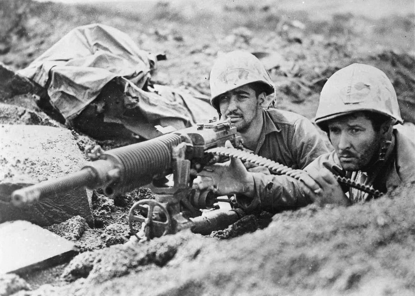 From the John C. Scharfen Collection (COLL/272), Marine Corps Archives & Special Collections OFFICIAL USMC PHOTOGRAPH